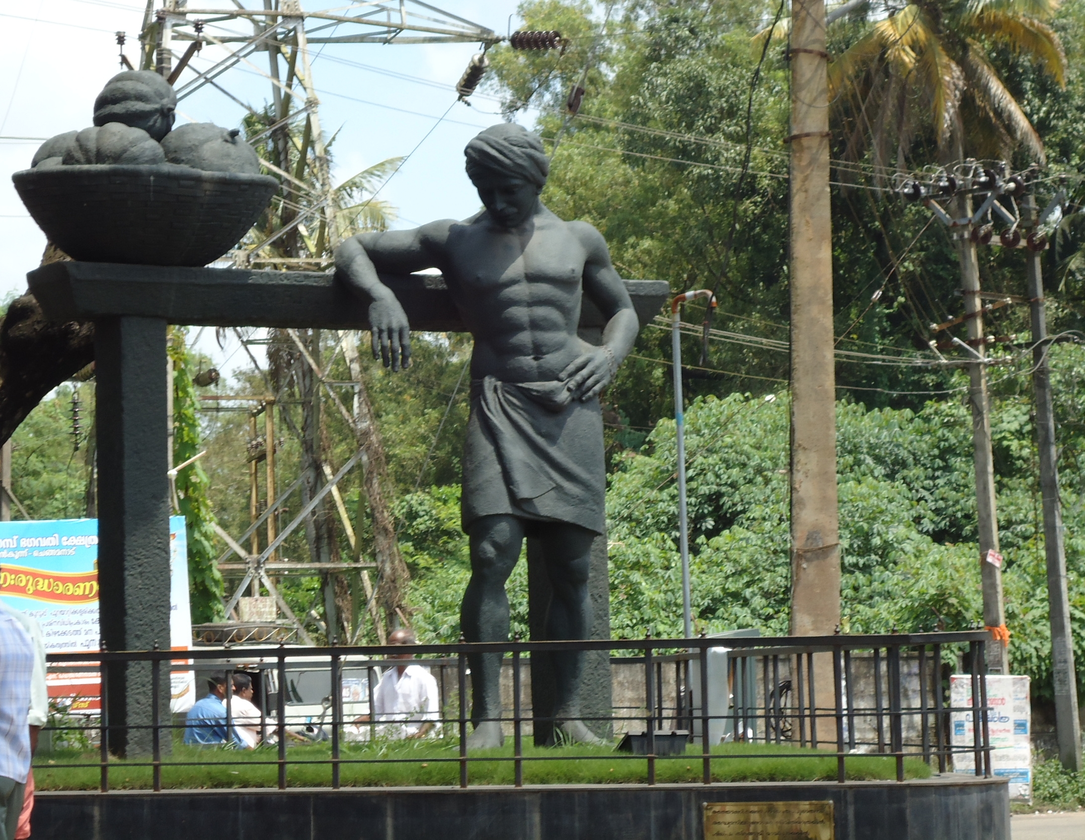 Statue_of_a_farmer_at_Athani_Junction